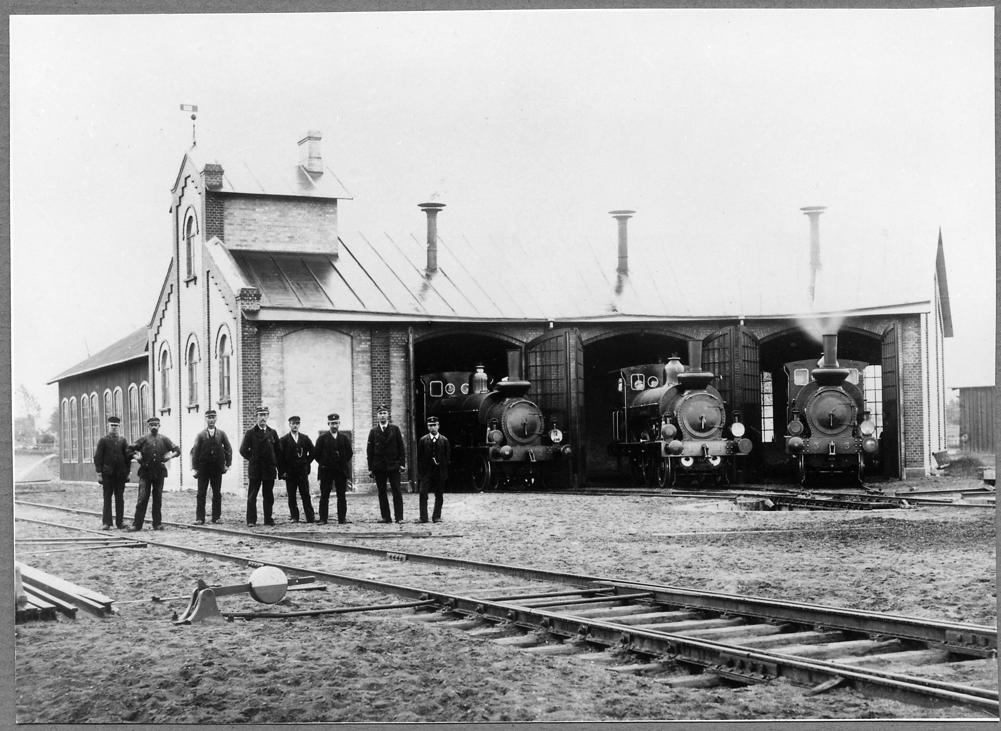 Malmö-Genarps järnväg. Lok 1, 2 och 3 vid lokstallarna i Genarp.